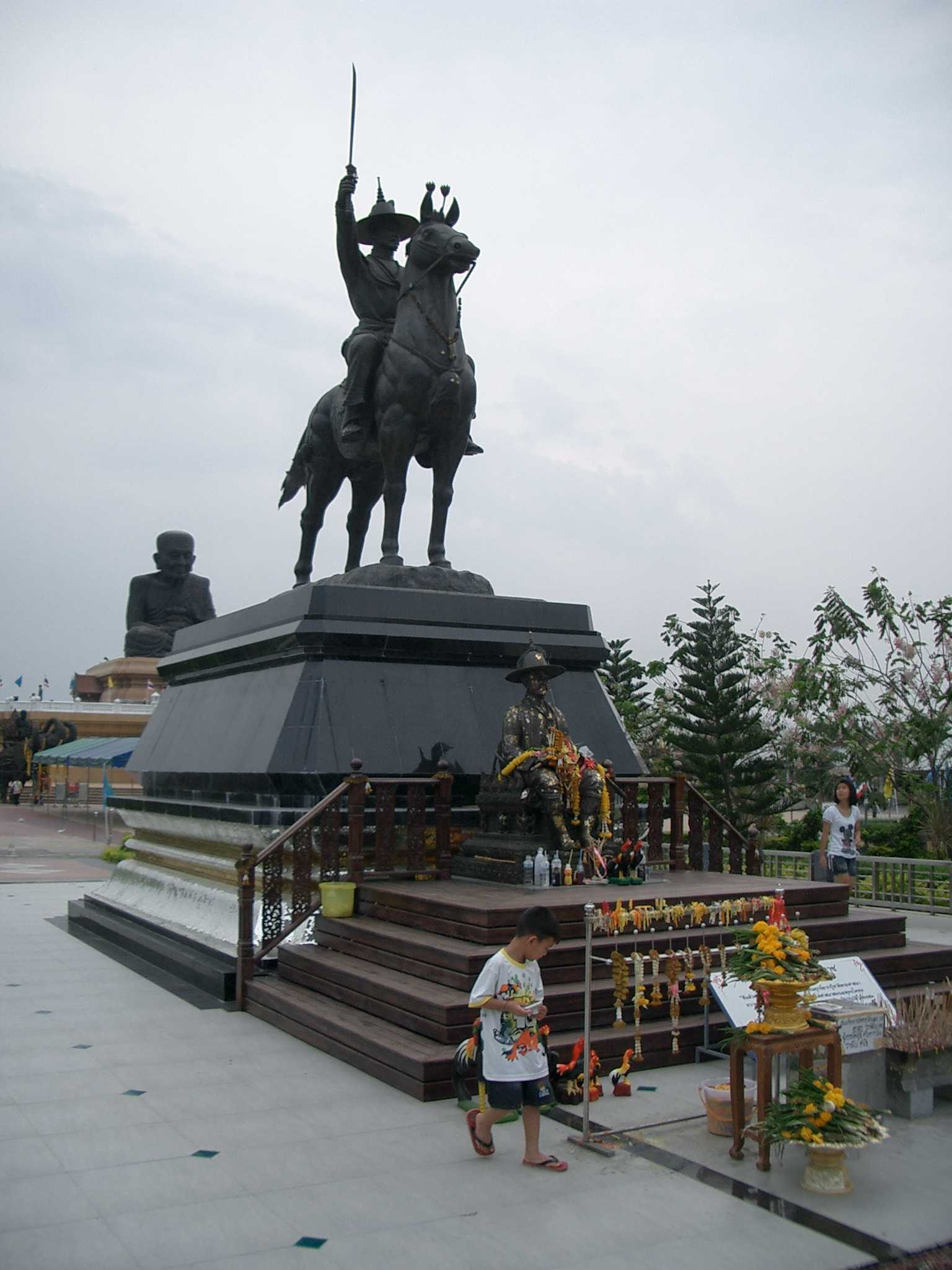 King Taksin Bronze Statue at Wat Huai Mongkhon, Prachuap Khiri Khan Province, Thailand